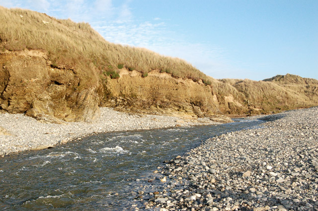 The Red River discharging into the sea at Godrevy in Cornwall, United Kingdom